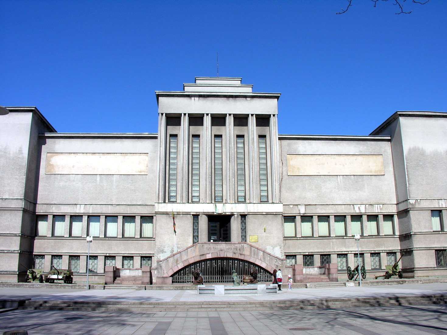 Kaunas War museum of Vytautas the Great